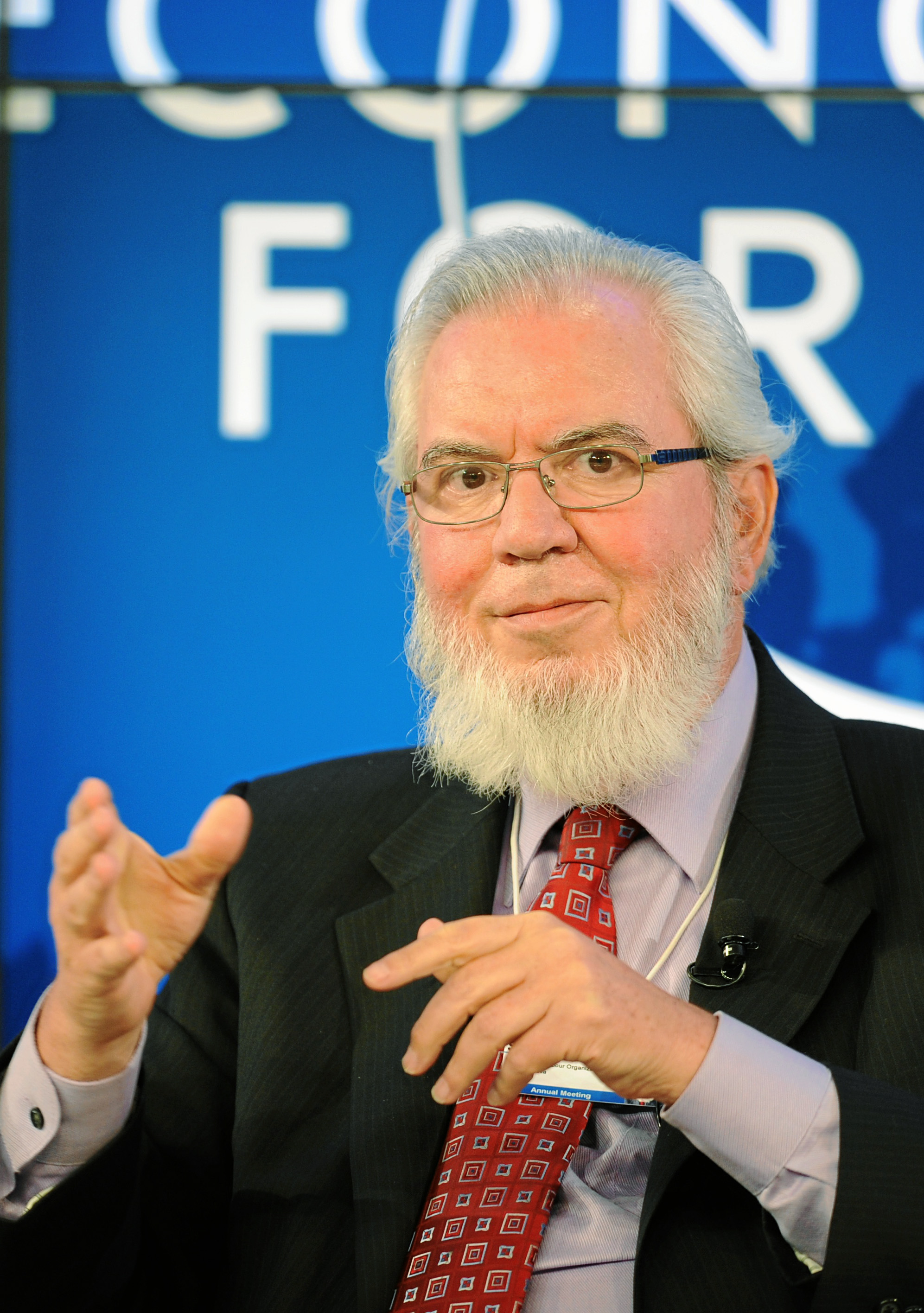 DAVOS/SWITZERLAND, 26JAN12 - Juan Somavia, Director-General, International Labour Organization (ILO), Geneva is captured during the session 'Averting a Lost Generation' at the Annual Meeting 2012 of the World Economic Forum at the congress centre in Davos, Switzerland, January 26, 2012.. . Copyright by World Economic Forum. by Michael Wuertenberg